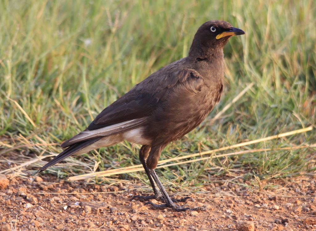 An adult African Pied Starling in Rietvlei Nature Reserve, Pretoria, South Africa.